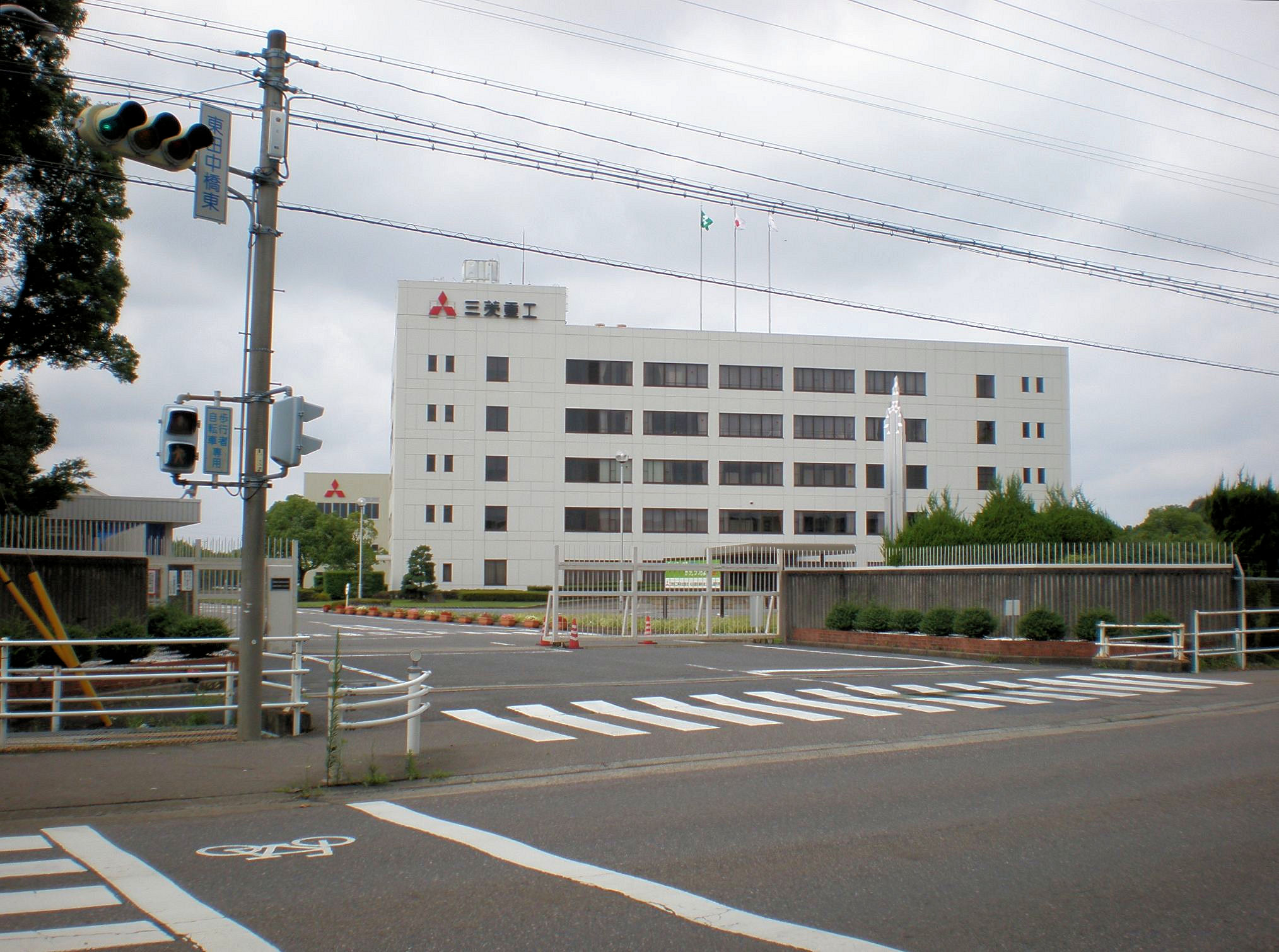 Mitsubishi Heavy Industries Nagoya Guidance & Propulsion Systems Works